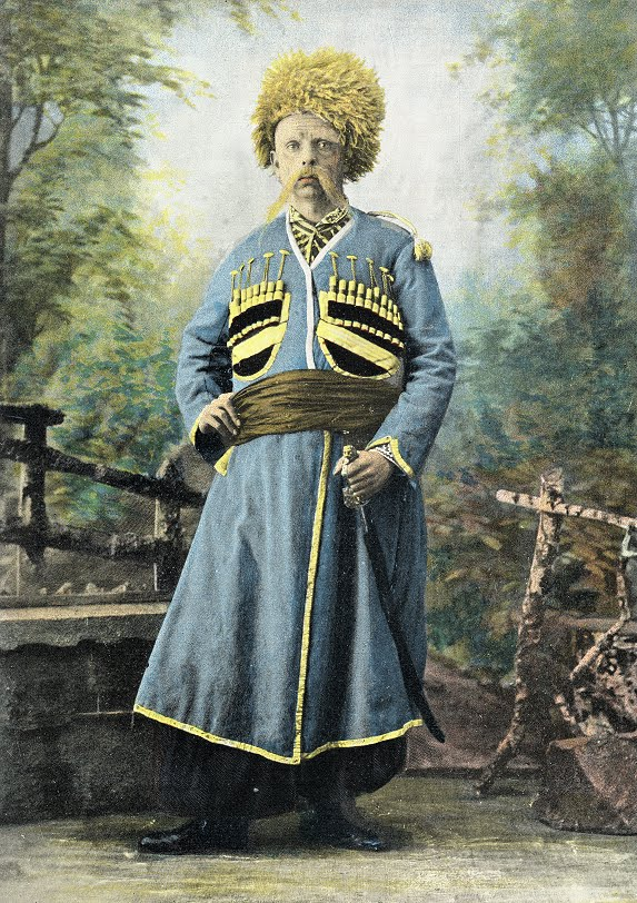 1898 photograph of a Circassian man with chokha.